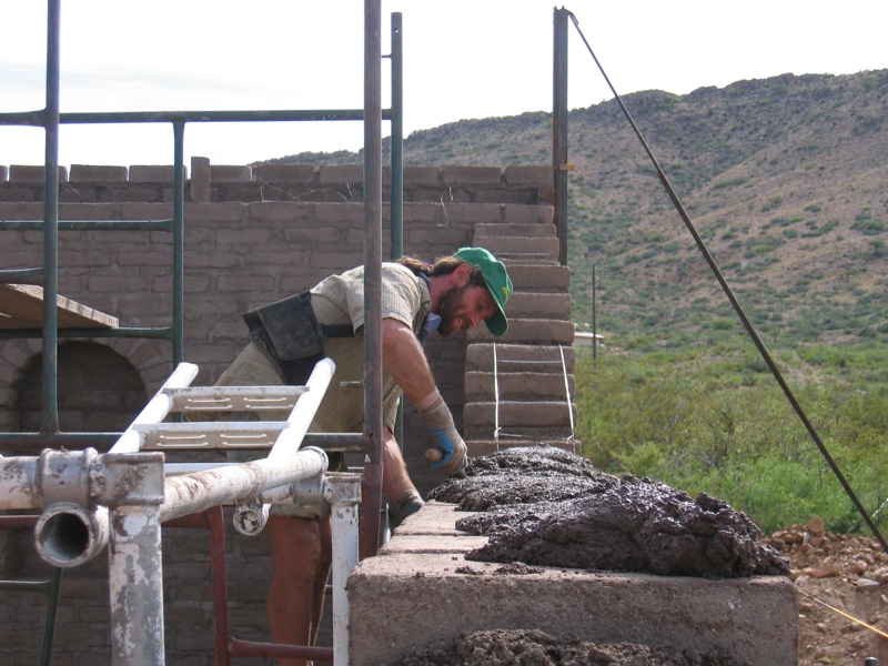 A Mason at work.